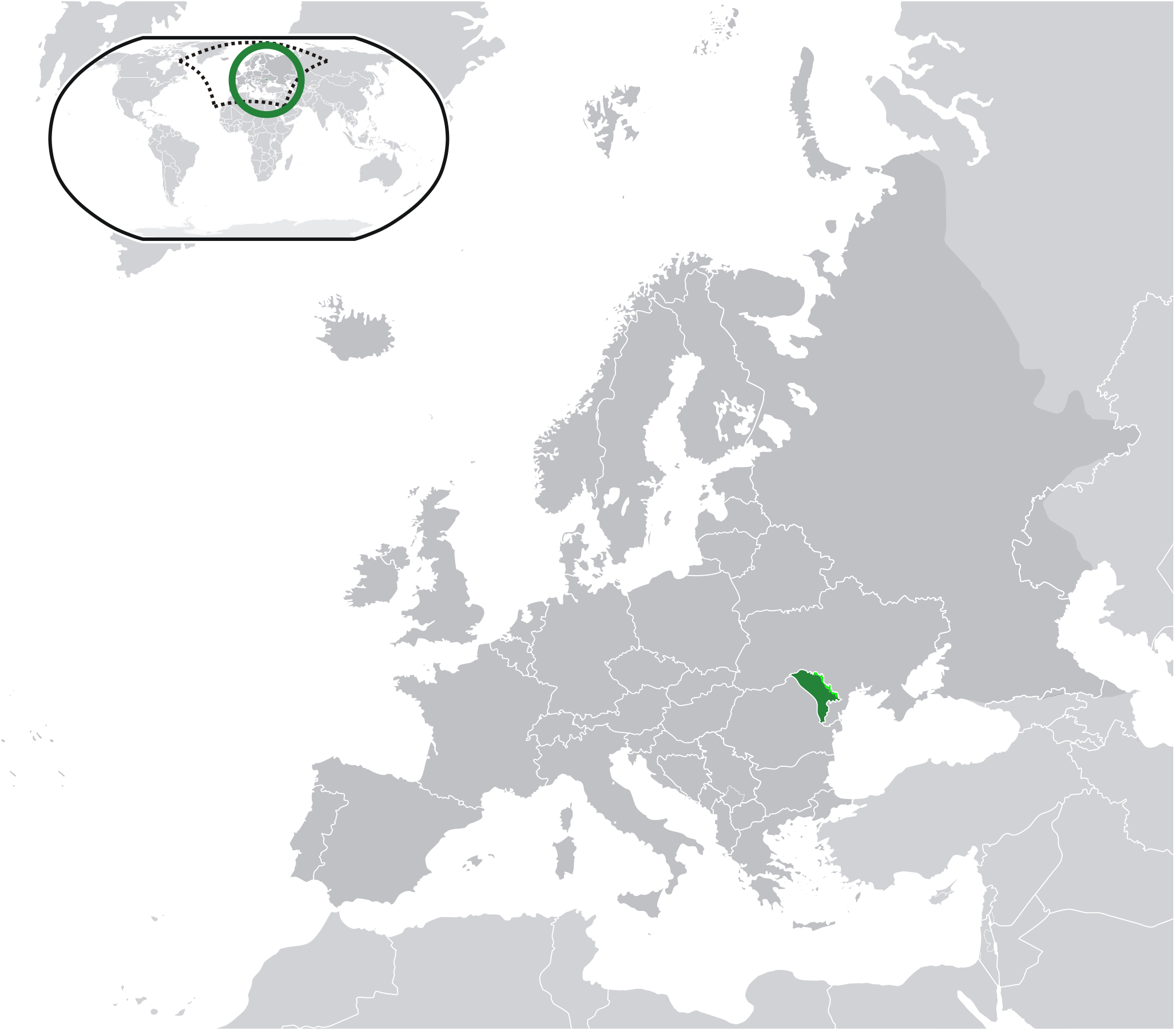 Moldova (green) / Transnistria (light green) / Europe (all green & dark grey); inspired by and consistent with general country locator maps by User:Vardion, et al